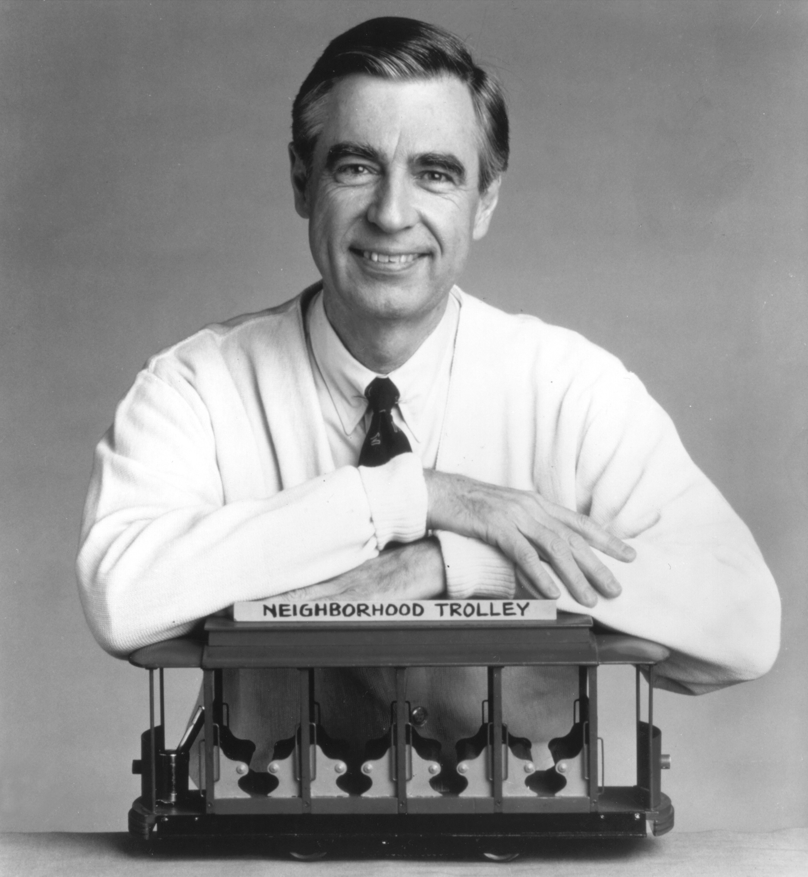 Fred Rogers and the Neighborhood Trolley.